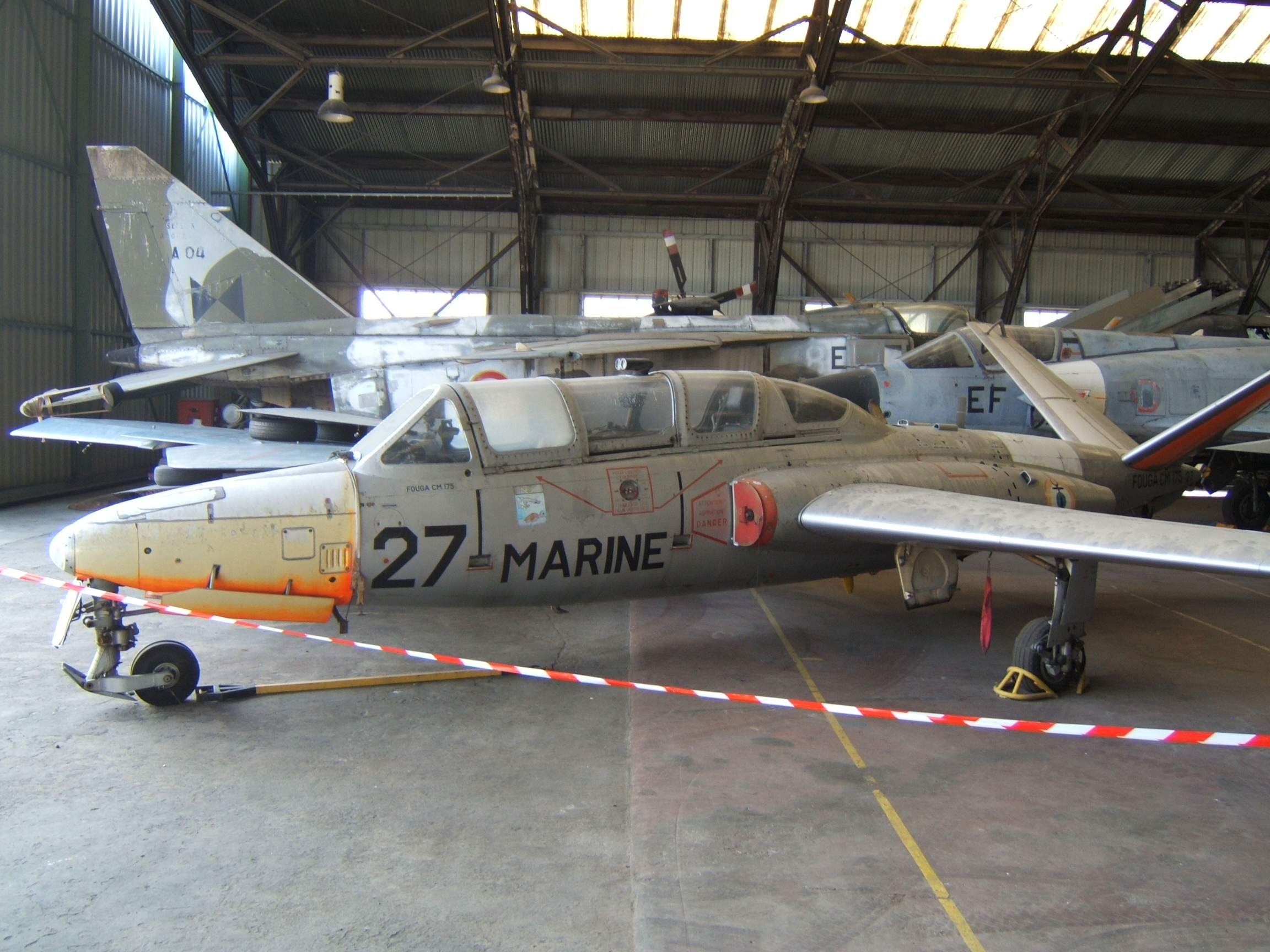 Fouga Zéphyr of the French air & space museum in september 2009.